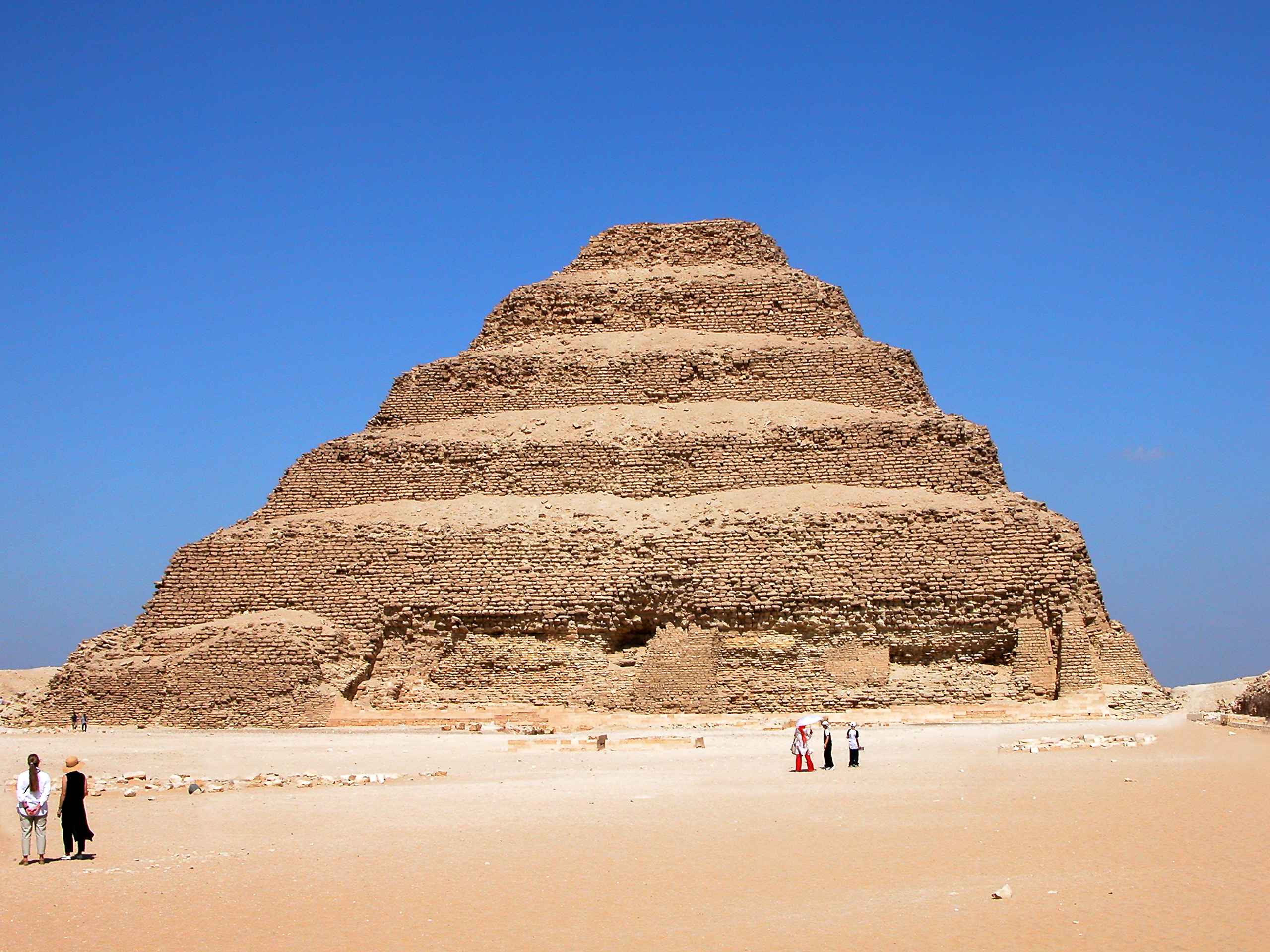 The Step Pyramid of Djoser is located at Saqqara, just south of Memphis. It started as a mastaba and was expanded six different times to six levels. A mastaba is a type of Ancient Egyptian tomb in the form of a flat-roofed, rectangular structure with outward sloping sides that marked the burial site of many eminent Egyptians of Egypt's ancient period. This pyramid is the earliest stone pyramid in Egypt, thus became an important milestone in Ancient Egyptian Architecture that laid the basis for future and more advanced pyramids in Egypt. The Step Pyramid was already an attraction for many centuries. Evidence has shown that travelers and pilgrims have come to see the pyramid from as early as the Middle Kingdom Period (2040 to 1640 BC). The Step Pyramid of Zoser was built approximately between 2649 to 2575 BC, during the 3rd Dynasty and under the rule of the pharaoh Zoser (or Djoser). The building was under the leadership of the pharaoh’s architect Imhotep. Because of Imhotep’s immense influence and contribution over Ancient Egyptian architecture, he was later deified and became god of the architects and doctors. Special permission from the Antiquities Inspectorate is needed to access the pyramid’s interiors. Original height: 62.198 m (204 ft) Base: 125.27 x 109.11 m (411 x 358 ft)